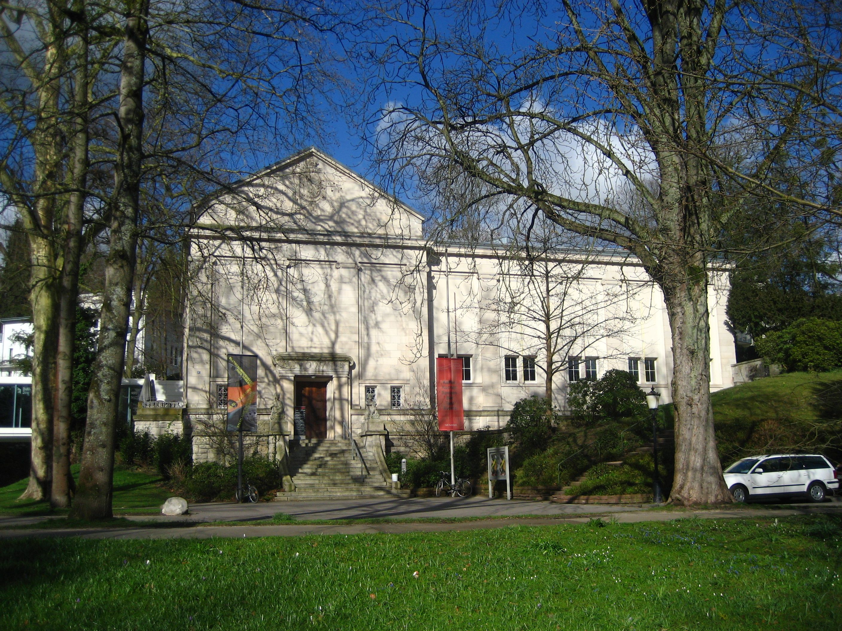 front sight of the Kunsthalle Baden-Baden